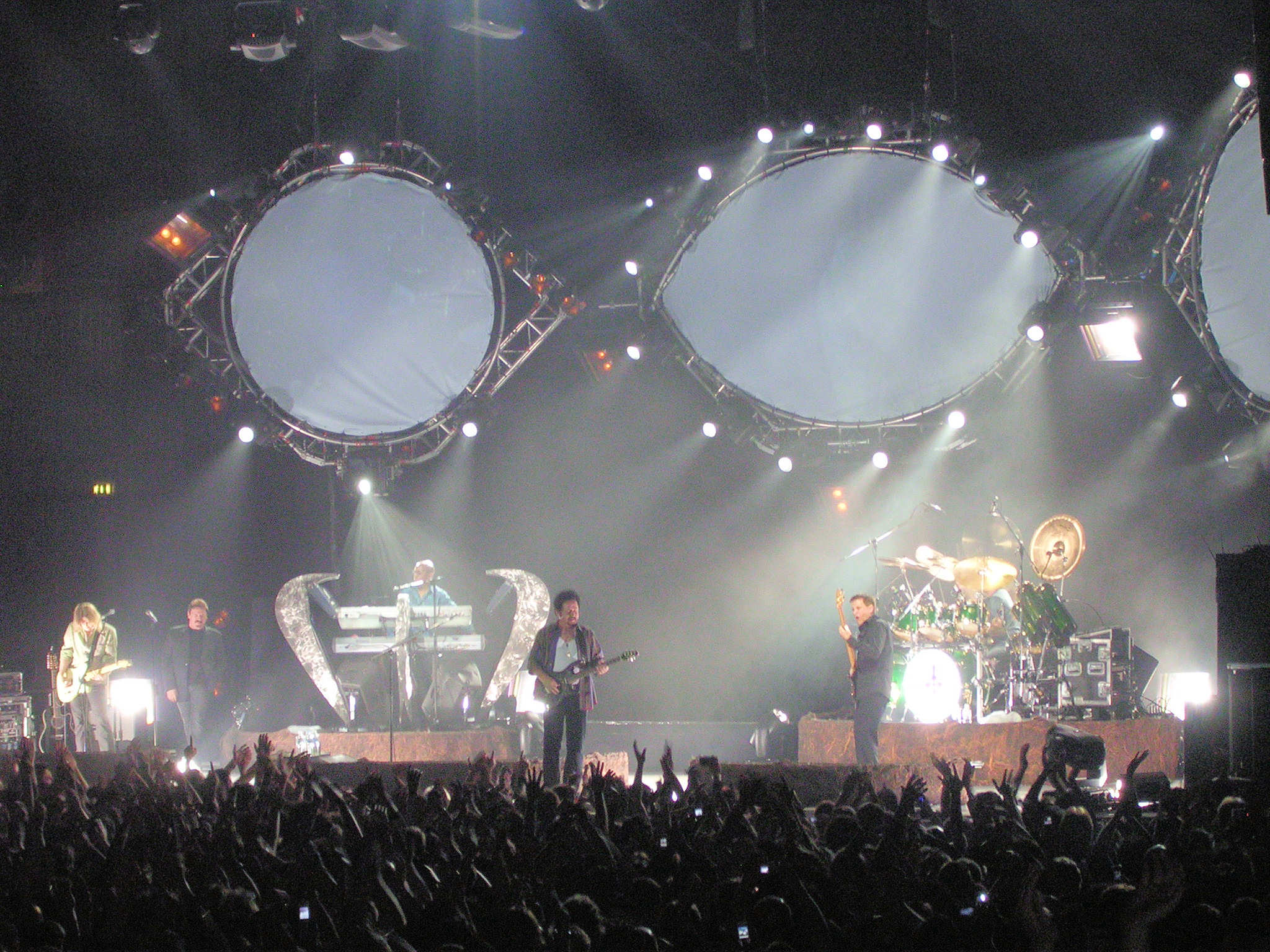 Toto in concert - Falling in Between Tour (Milan, Mazdapalace, 2006, march the 18th)